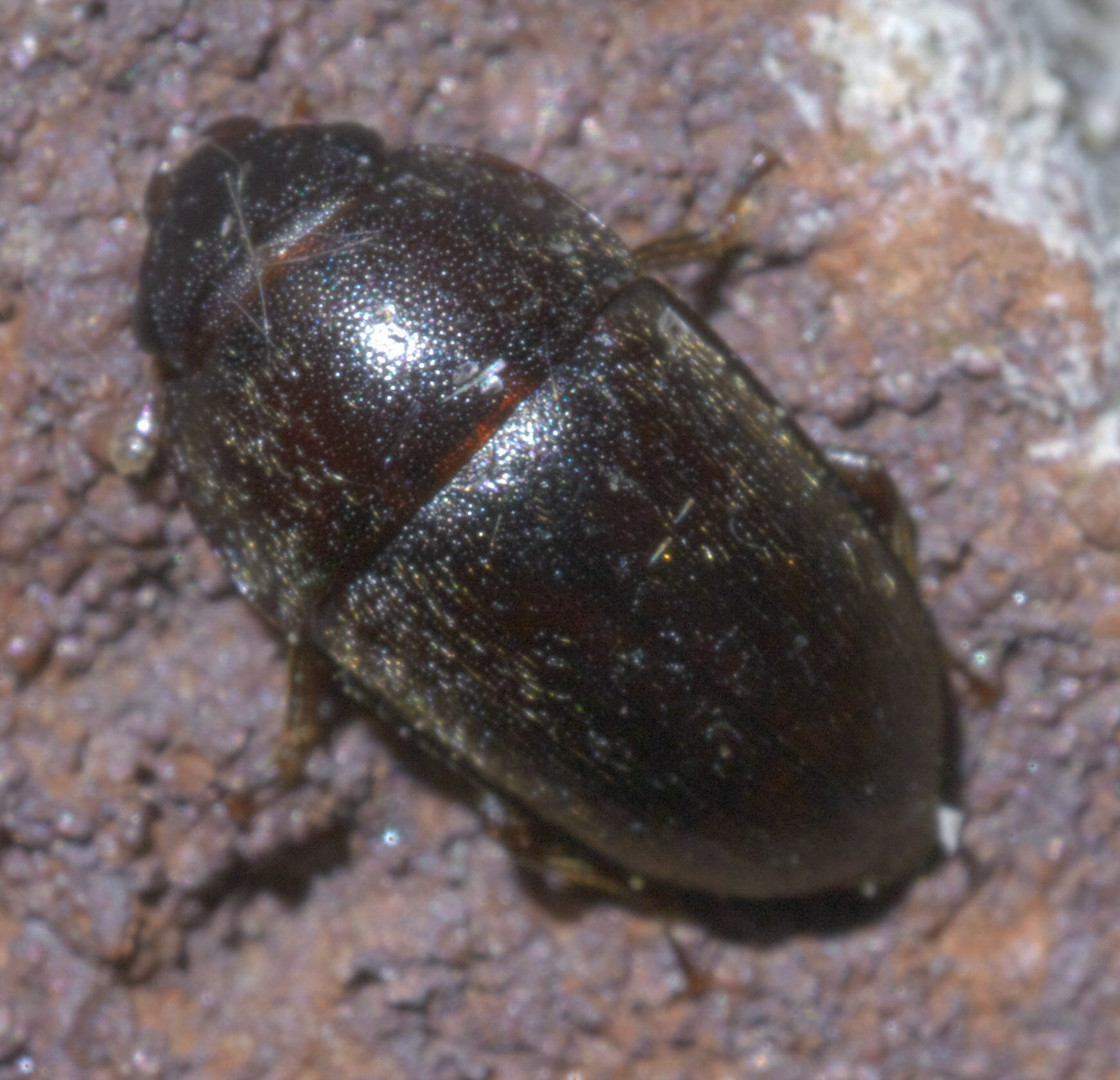 Cryptarcha ampla, Family: Sap-feeding Beetles, Size: 6 mm, ID Confidence: 98